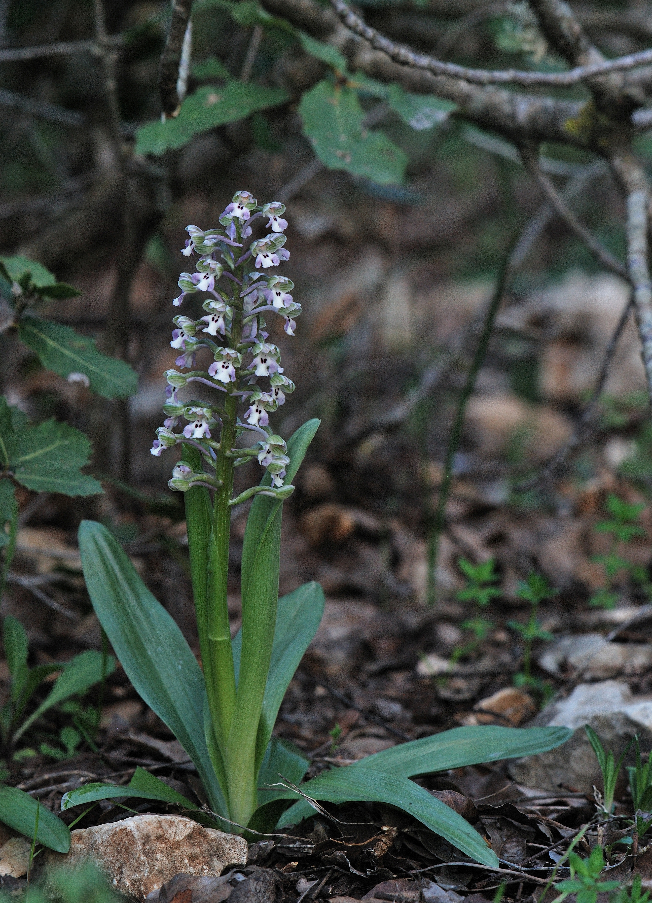 Anacamptis israelitica (Orchis israelitica), Har Shezor, Upper Galilee, Israel, March 4, 2011.